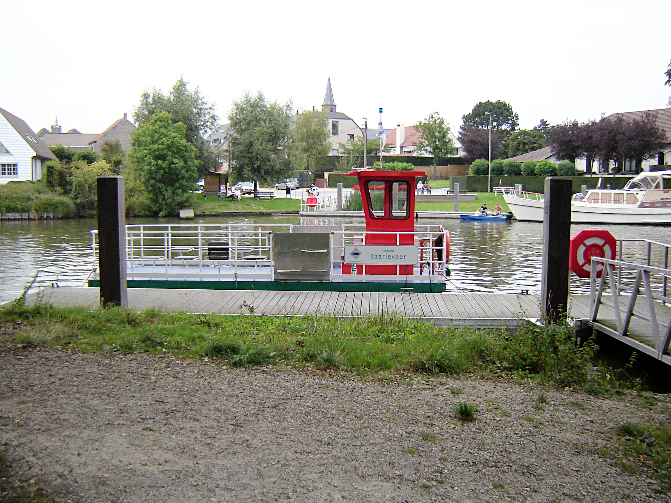 Baarleveer (ferry) across the river Lys, from Sint-Martens-Latem to the village centre of Baarle. Baarle, Drongen, Gent, East Flanders, Belgium